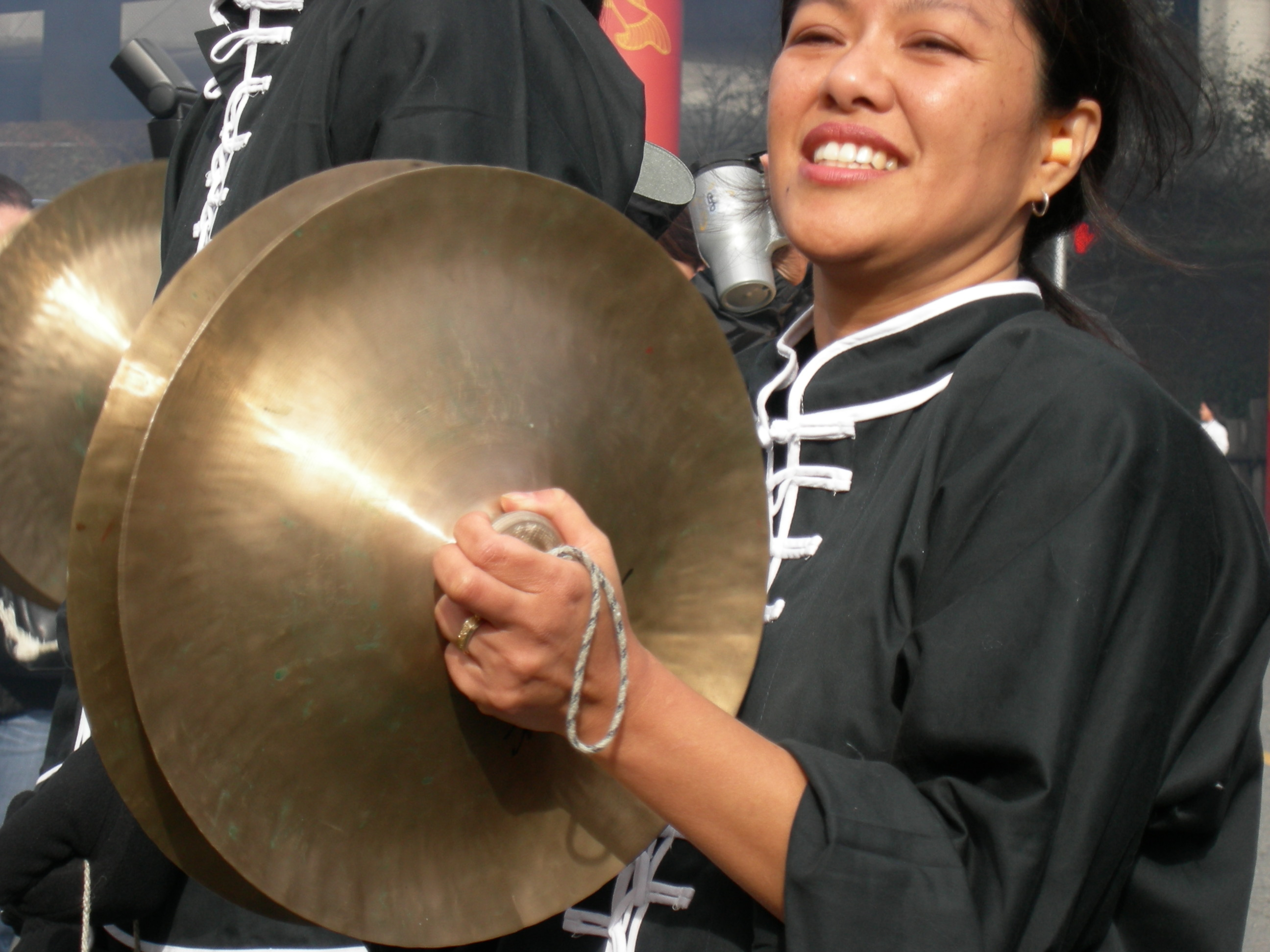 Cymbals, Chinese New Year in front of House of Hong, International District, Seattle, Washington.